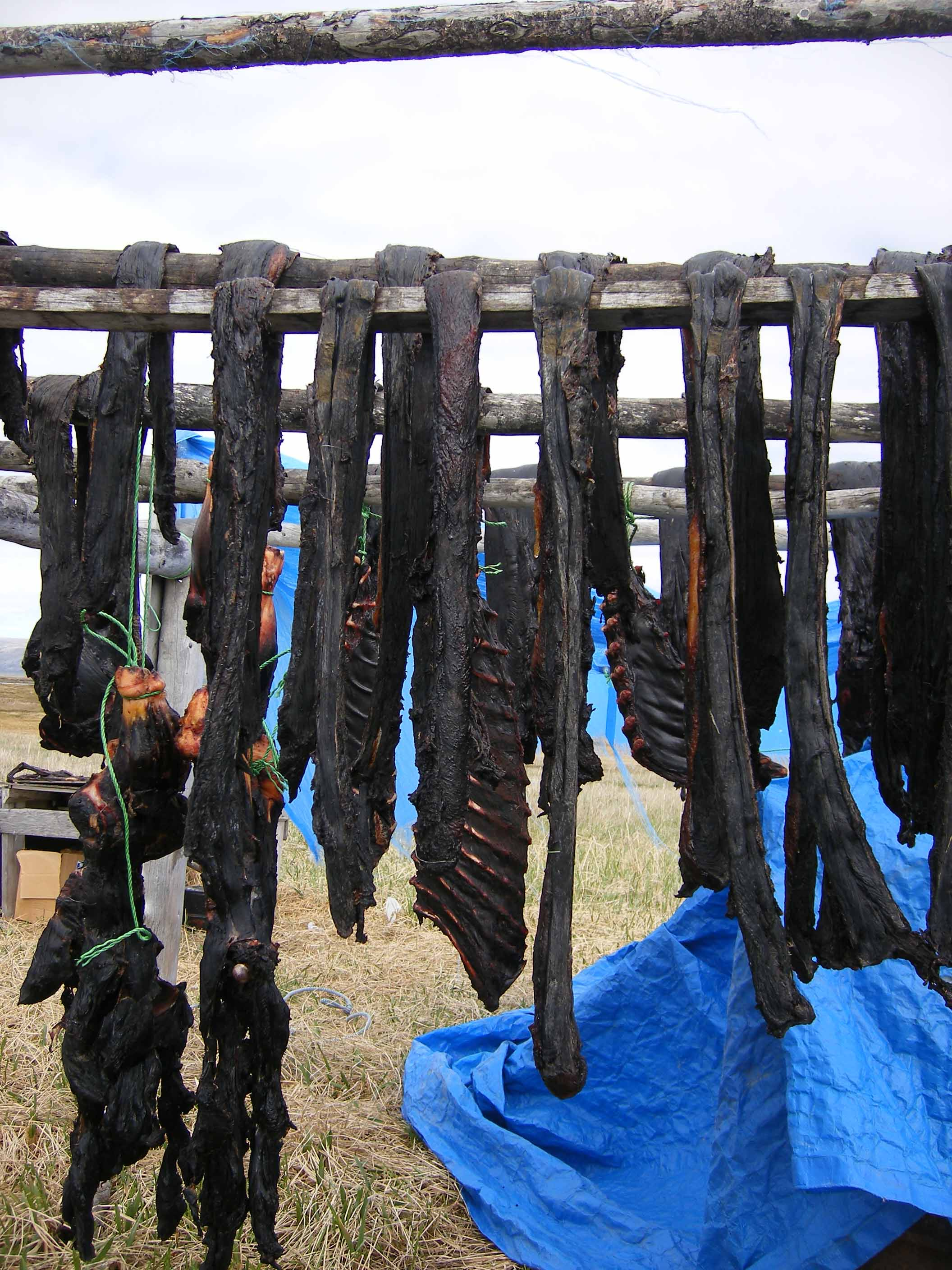 Black strips of seal meat drying on a rack at a summer subsistence camp. 25 pieces of black seal meat hang from a wooden rack .